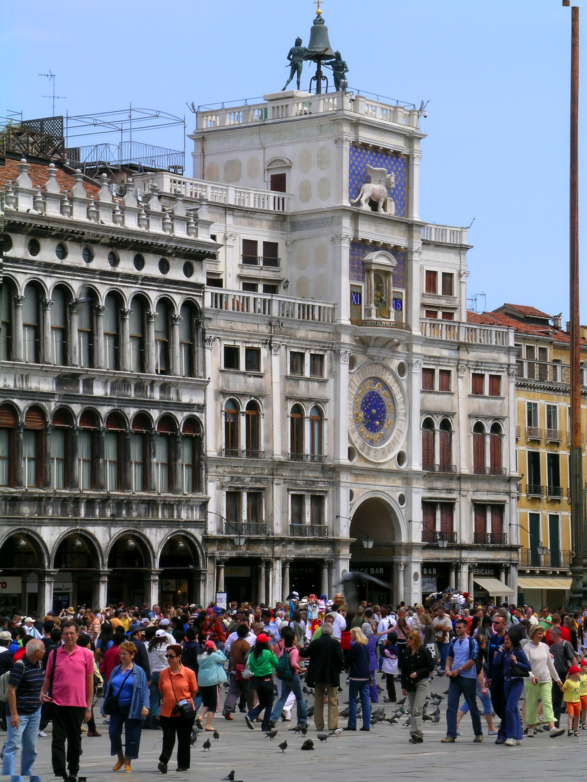 The Torre dell'Orologio (Clock tower) in the Piazza San Marco in Venice